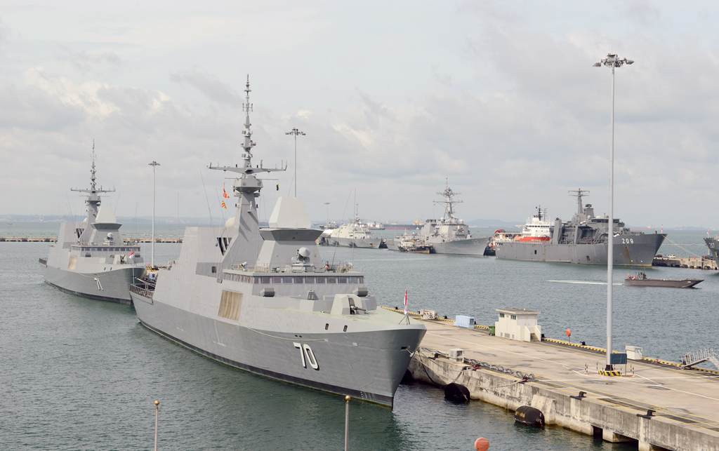 150714-N-YU572-062SINGAPORE (Jul. 14, 2015) – The littoral combat ship USS Fort Worth (LCS 3), top left, and the Arleigh Burke-class guided-missile destroyer USS Lassen (DDG 82), top middle, rest in port at Changi Naval Base during Cooperation Afloat Readiness and Training (CARAT) Singapore 2015. In its 21st year, CARAT is an annual, bilateral exercise series with the U.S. Navy, U.S. Marine Corps and the armed forces of nine partner nations including, Bangladesh, Brunei, Cambodia, Indonesia, Malaysia, the Philippines, Singapore, Thailand and Timor-Leste. (U.S. Navy photo by Mass Communication Specialist 1st Class Jay C. Pugh/Released)